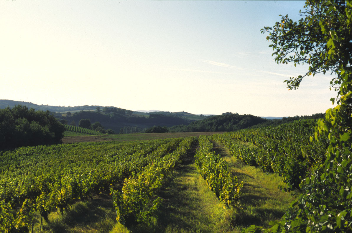 Vineyard Gaillac, South of France